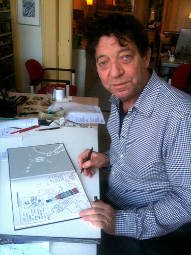 Dutch cartoon artist Theo van den Boogaard